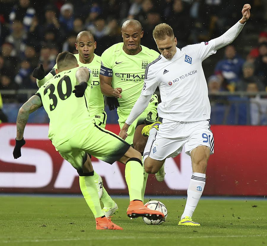 Lukasz Teodorczyk (Kyiv, 91, white) shooting, among three Manchester players during UEFA Champion's League match (Dynamo Kyiv - Manchester City, last 16 1st leg).